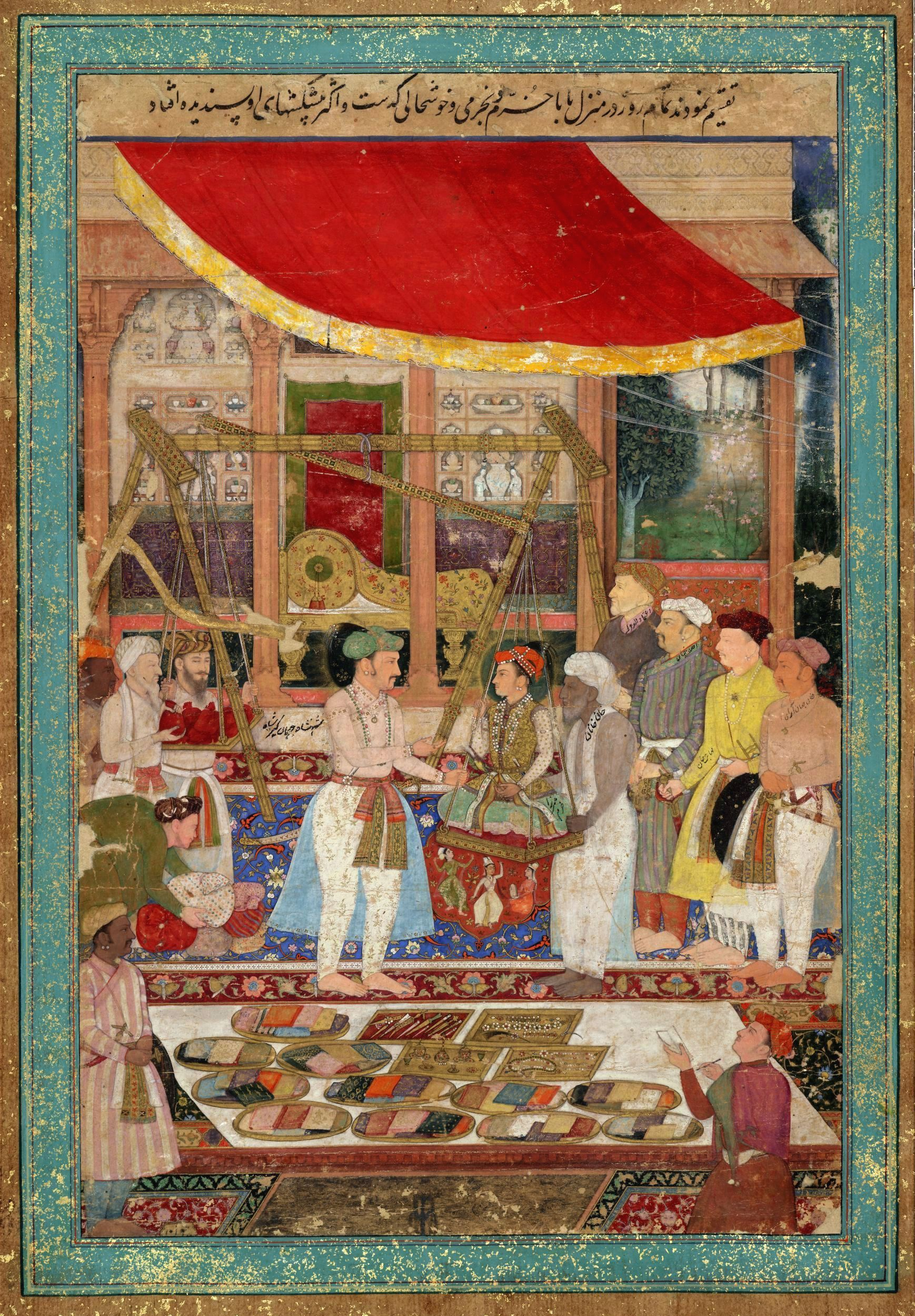 Emperor Jahangir weighs Prince Khurram (later crowned Shah Jahan). Page from Tuzk-e-Jahangiri. 1610-1615, British Museum, London